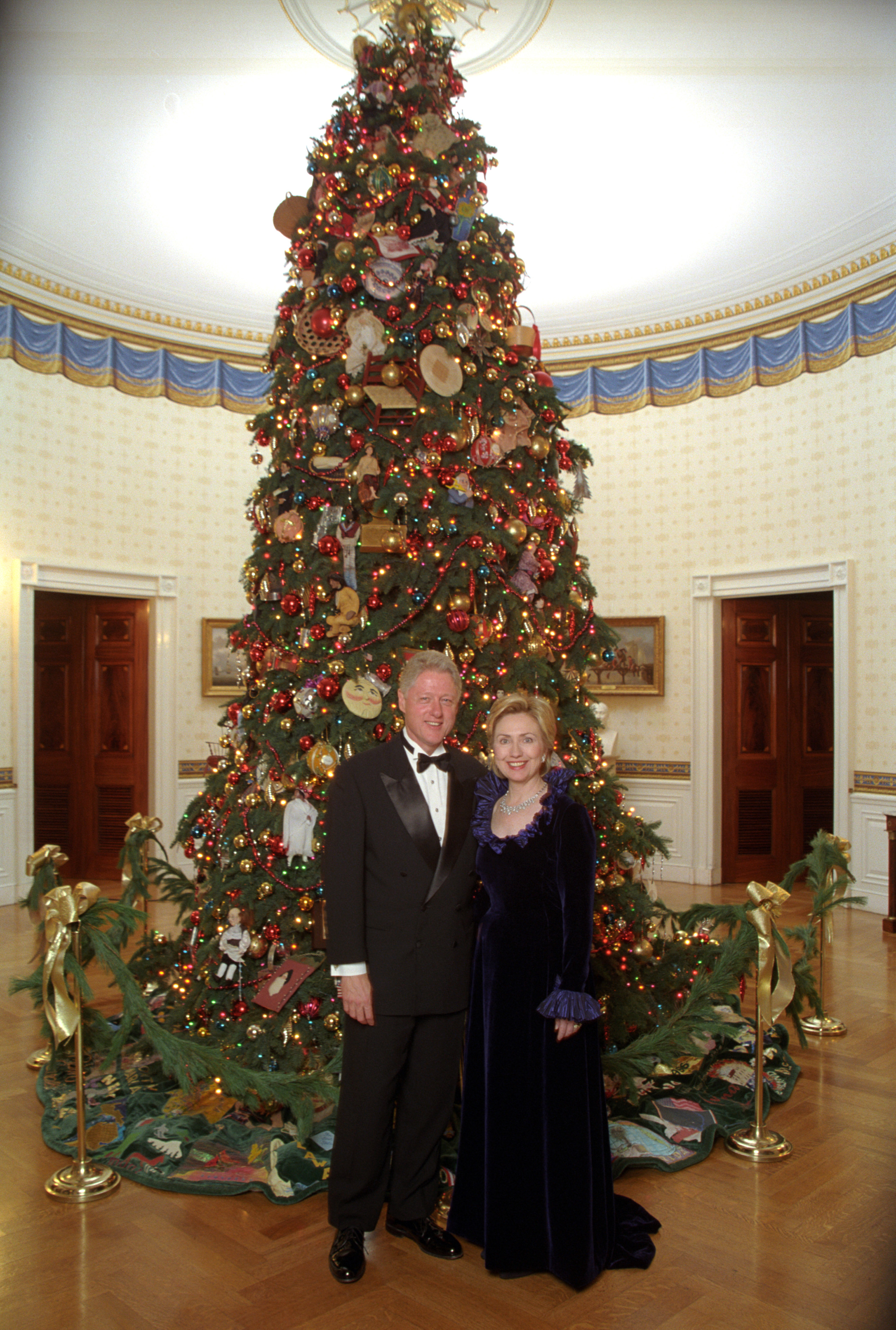 President Clinton and Hillary Rodham Clinton posing next to the 1999 White House Christmas tree for their official Christmas portrait